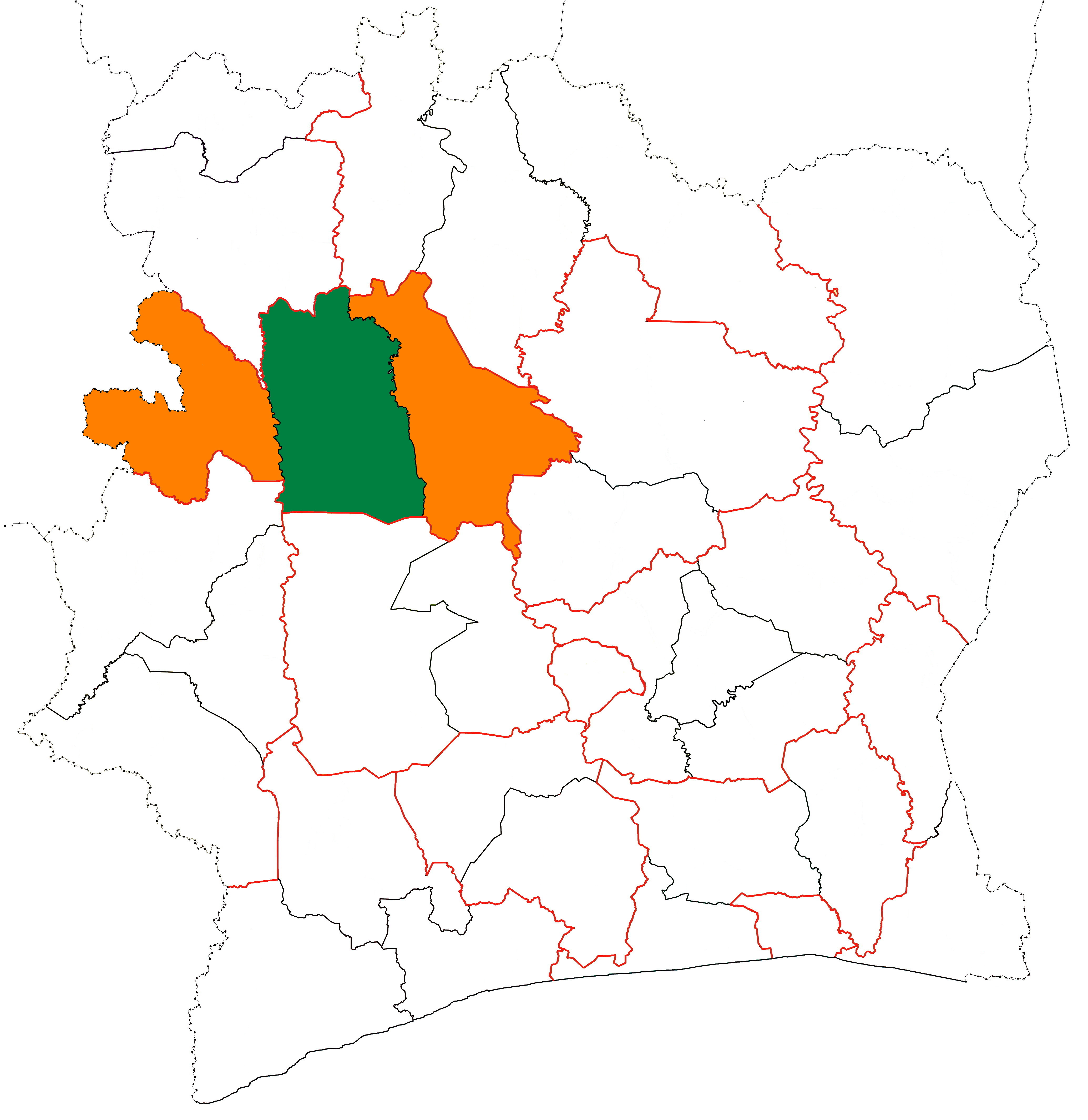 The location of Worodougou region (green) in Côte d'Ivoire. The other shaded areas represent the other parts of Woroba District.